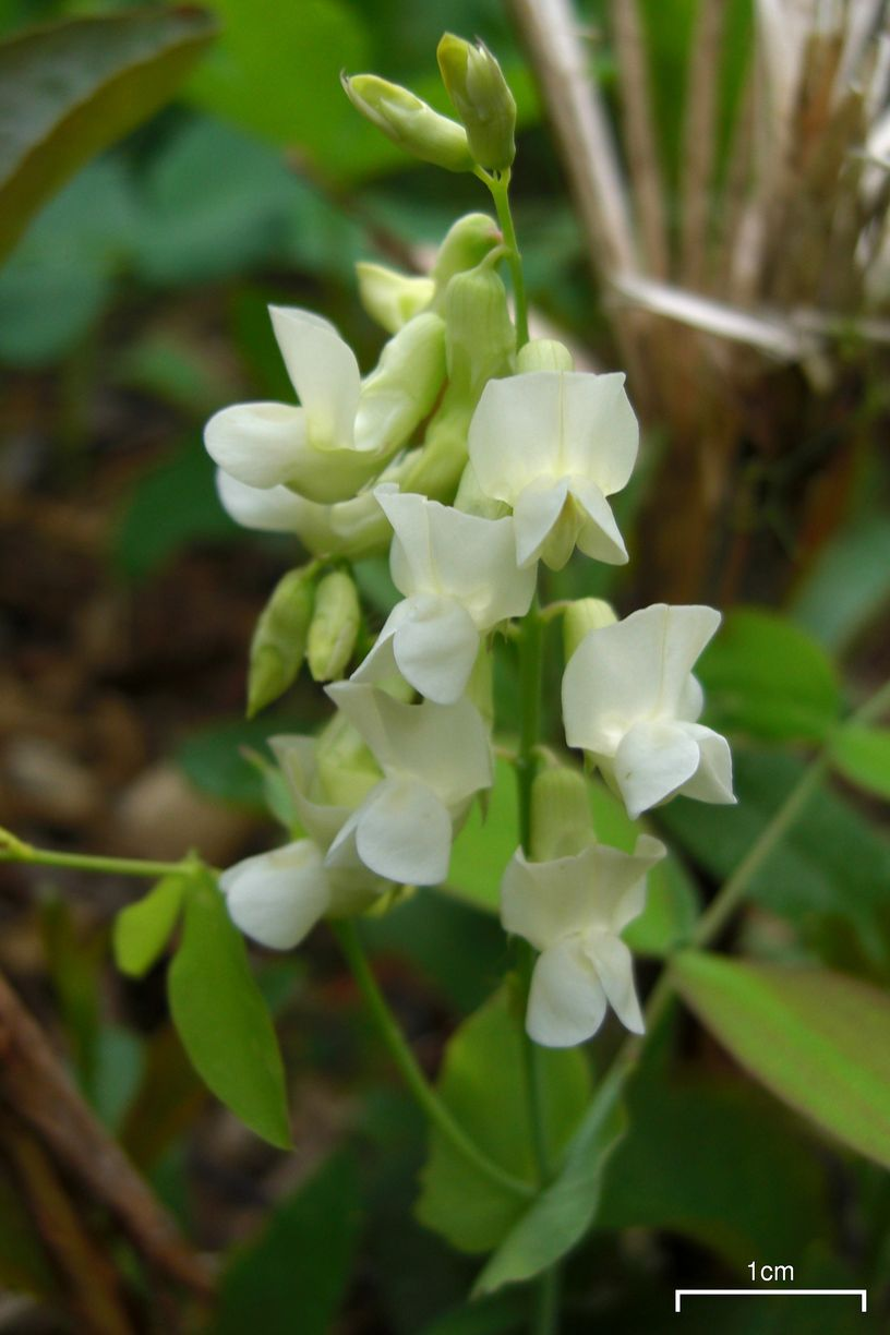 Lathyrus ochroleucus Hook. 20090619.37 near Chetwynd, BC